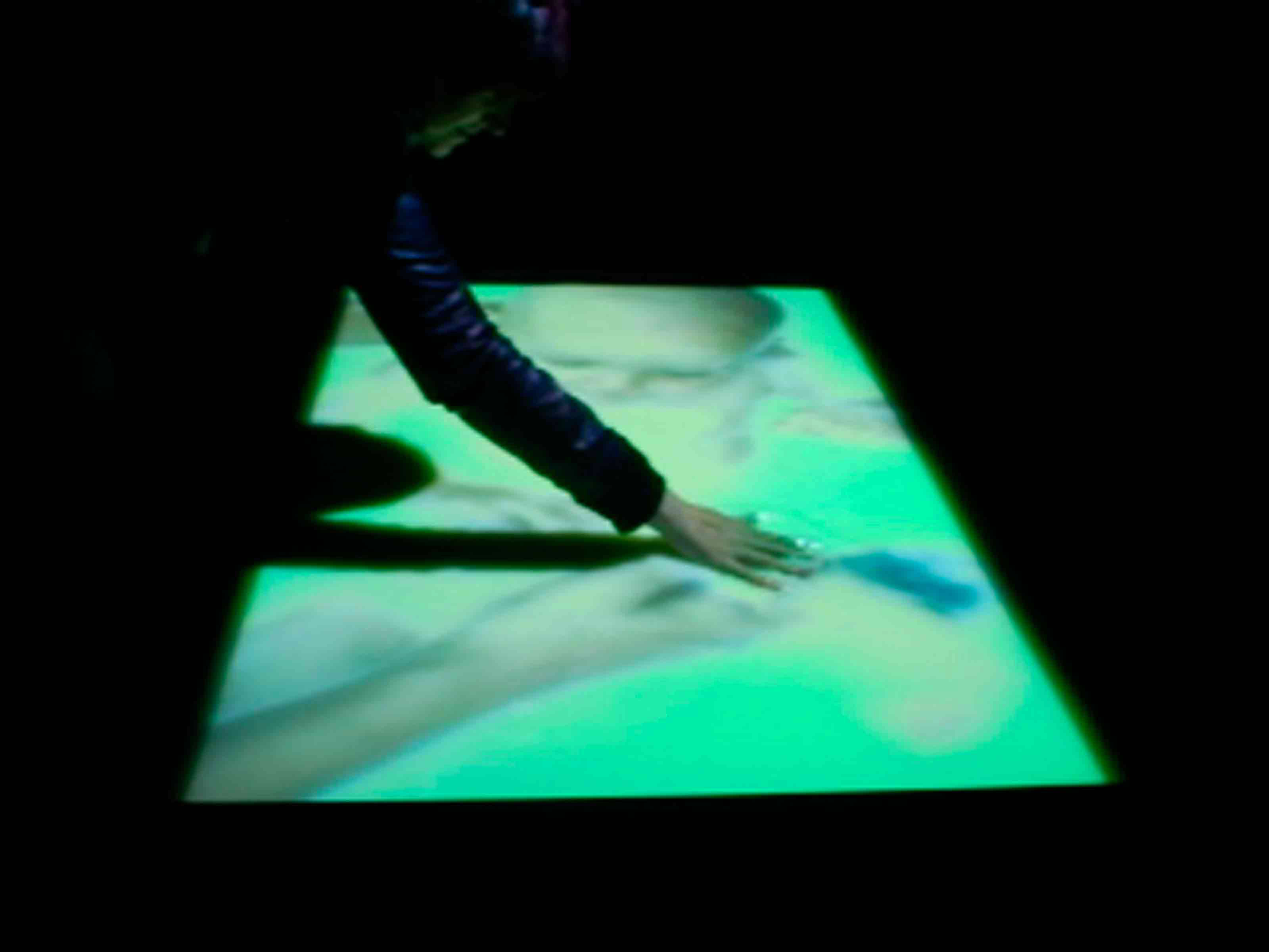 videoinstallation on a water box